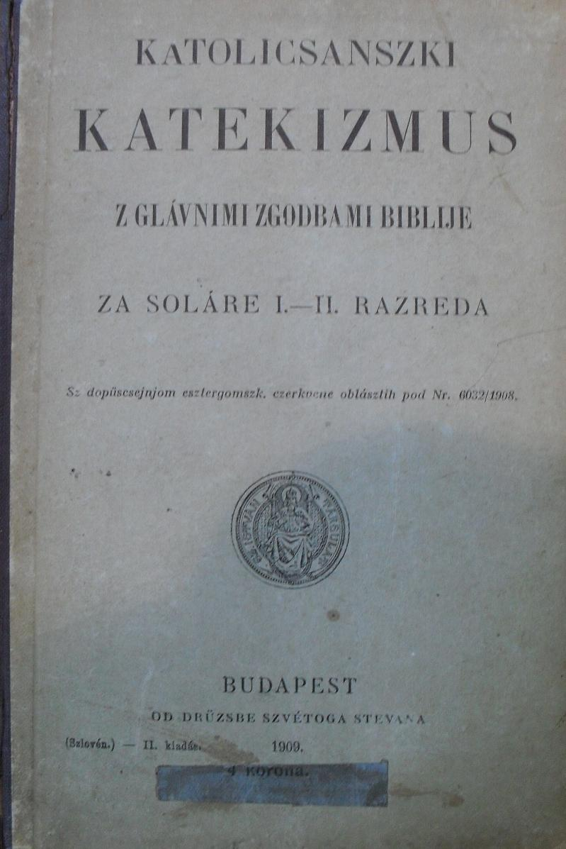 József Szakovics Katolicsanszki katekizmus z glávnimi zgodbami biblije (Catholic cathecism with primarl historys of Bible) in prekmurian language. Second issue in 1909. Hard page.